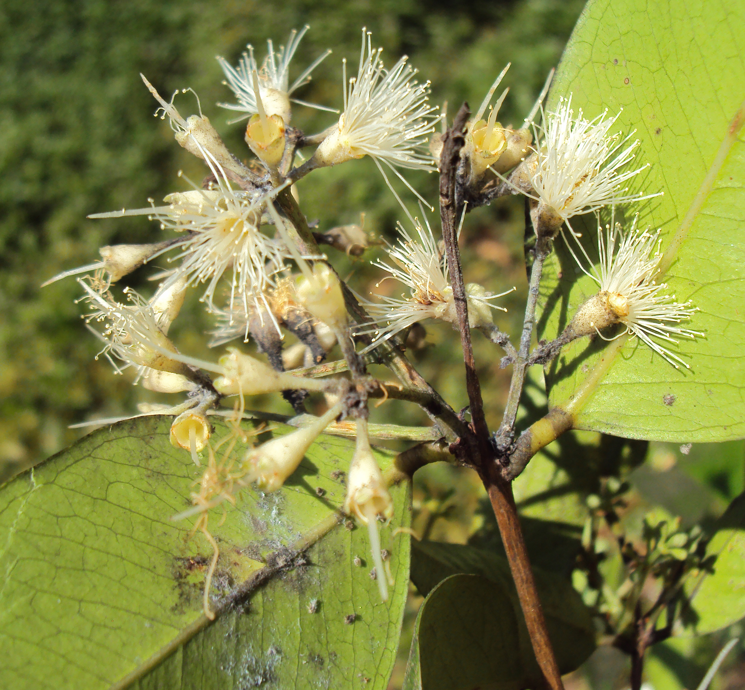 Syzygium zeylanicum